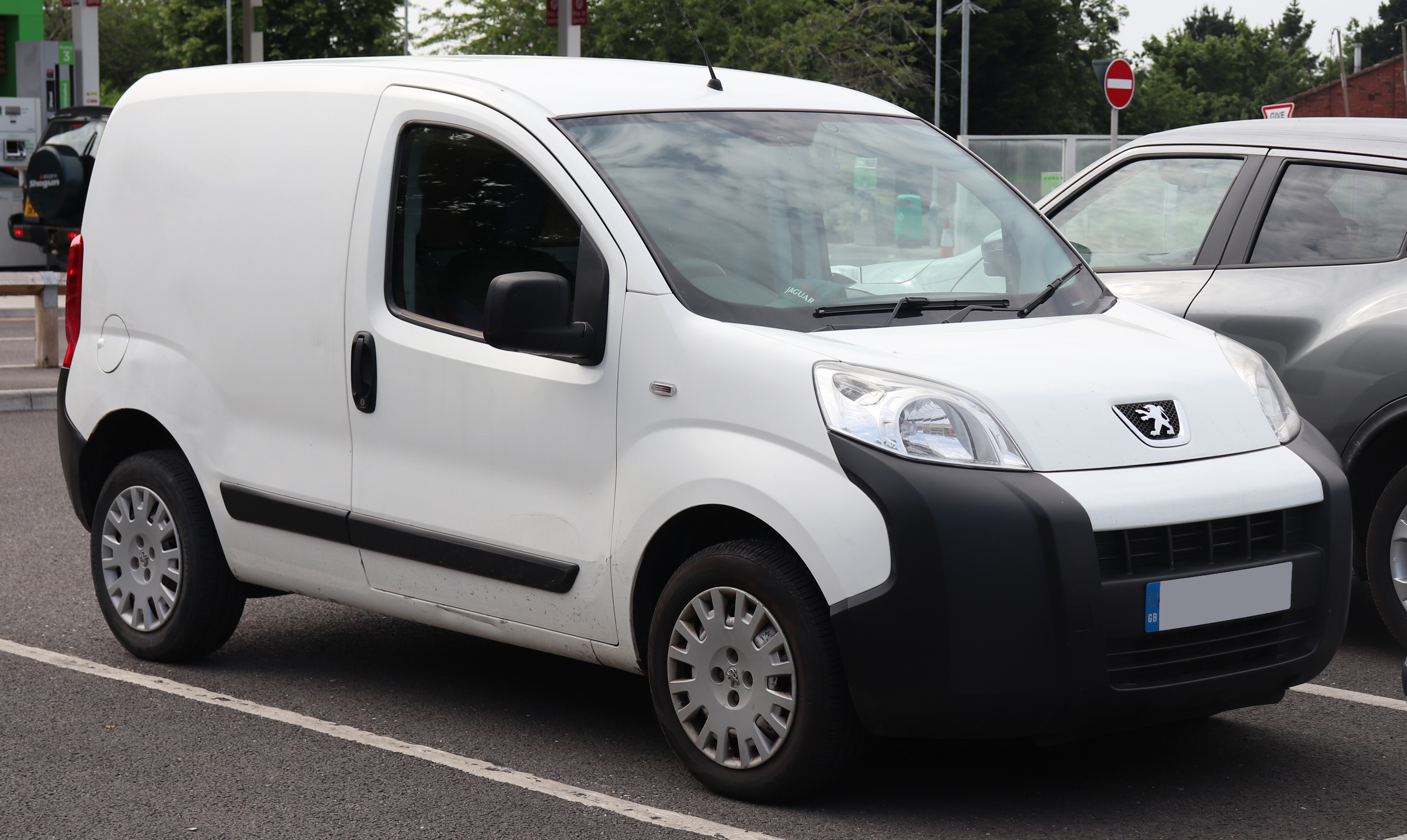 2010 Peugeot Bipper Professional HDi 1.4 Front Taken in Leamington Spa